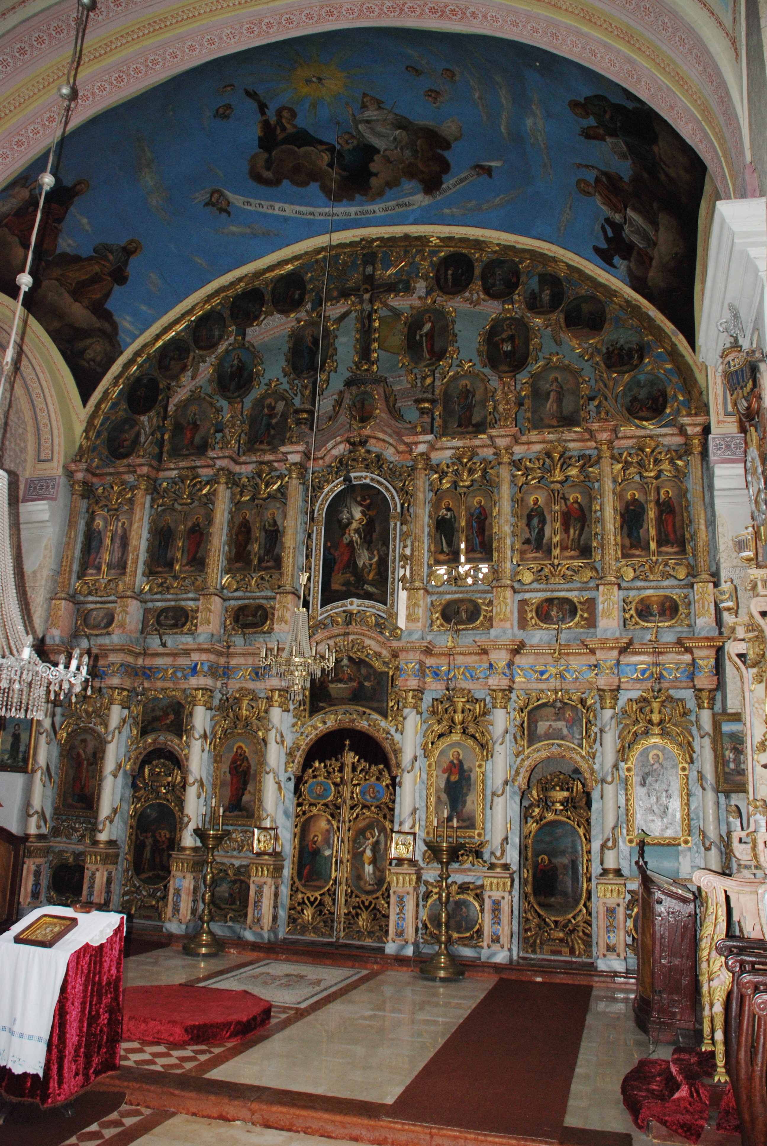 Serbian Orthodox church of Saint Nicholas in Melenci - iconostasis